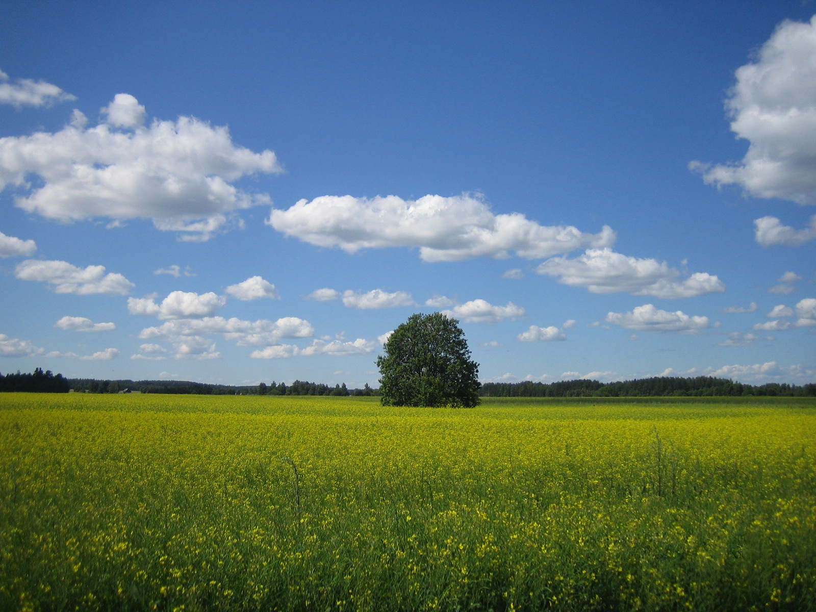 Brassica napus is flowering in the field